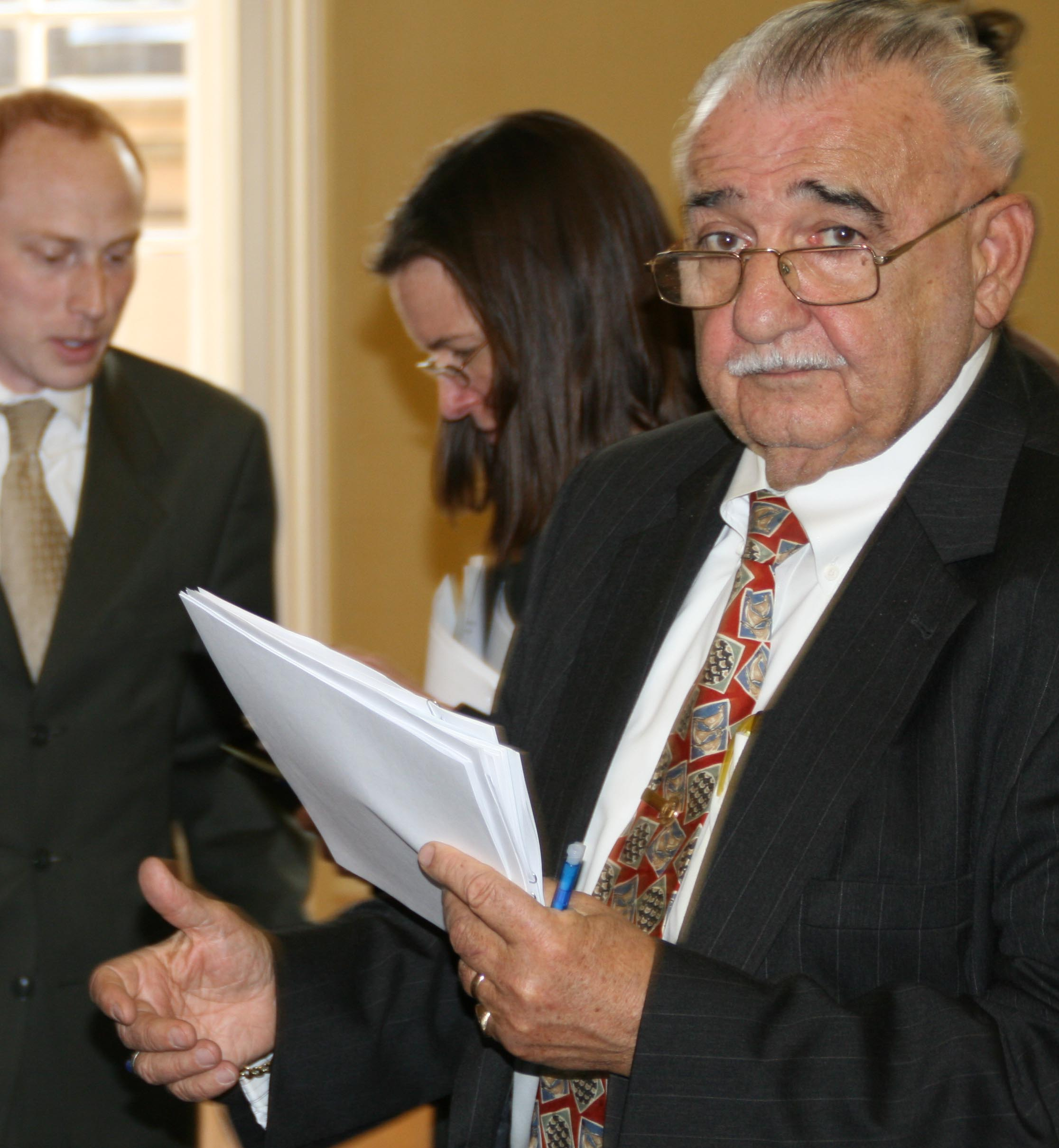 delegate joe vallario